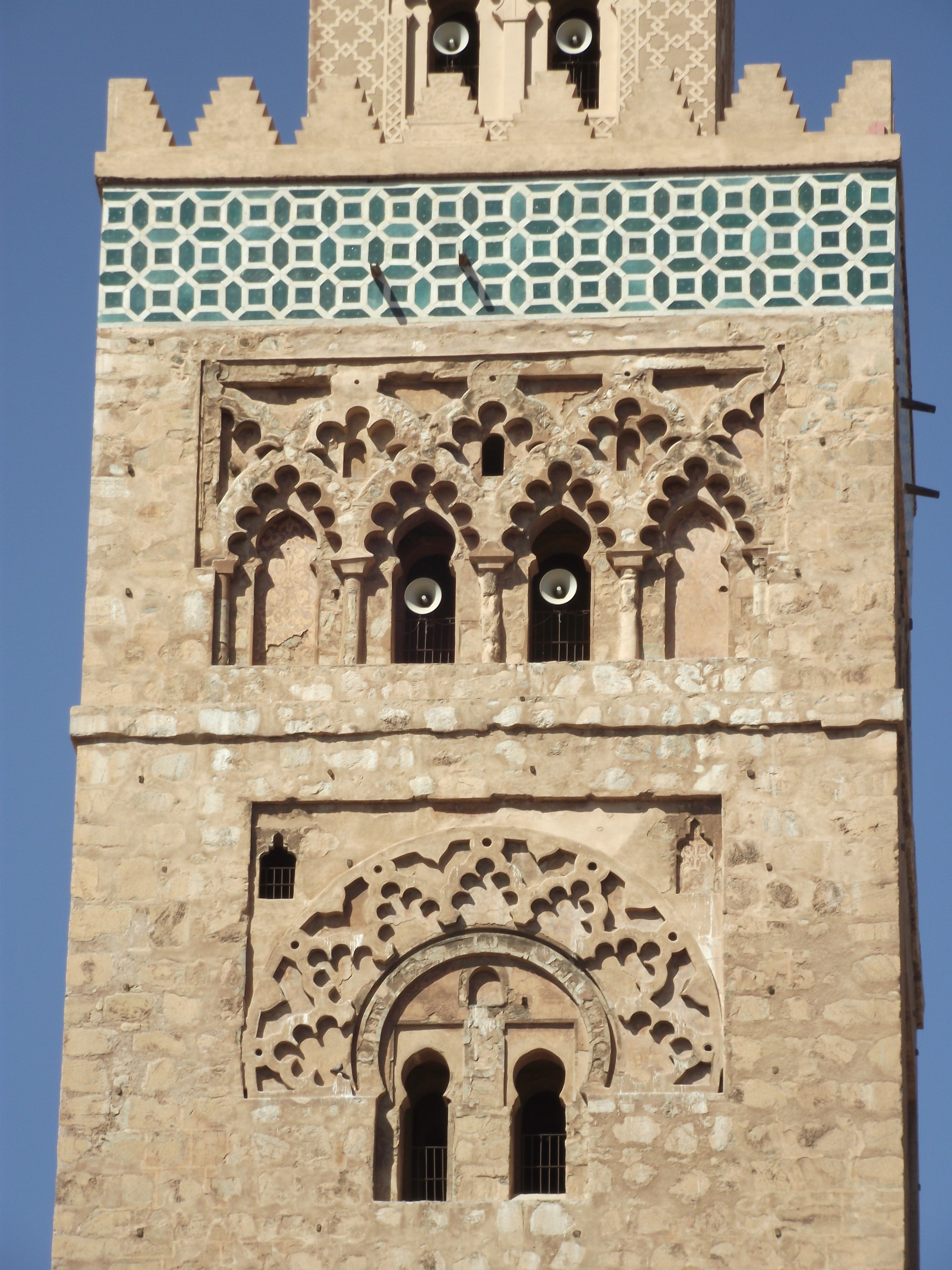 Marrakech, Koutoubia Mosque, 1158-59